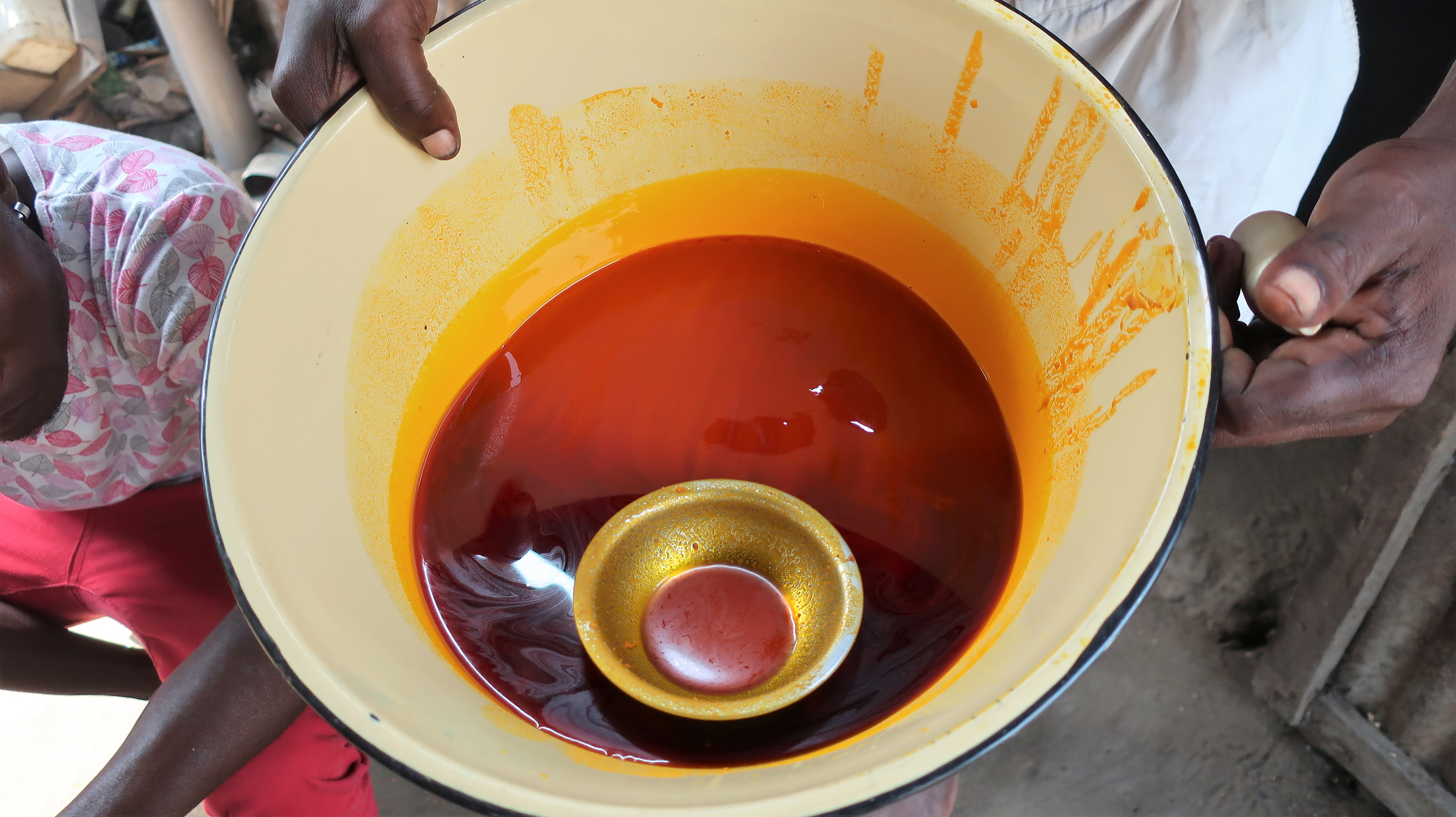 palm oil in a container and a scoop